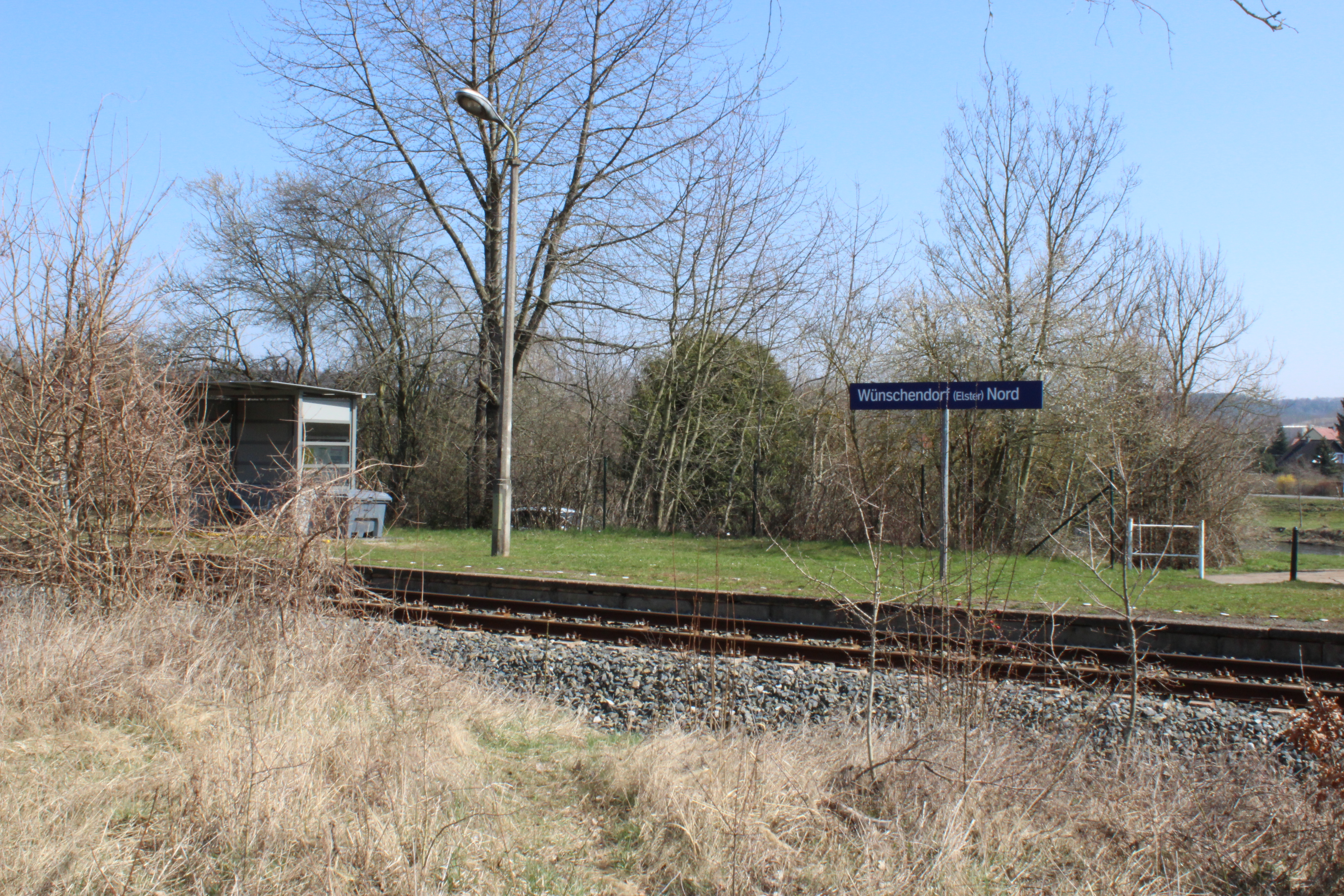 train station Wünschendorf (Elster) Nord